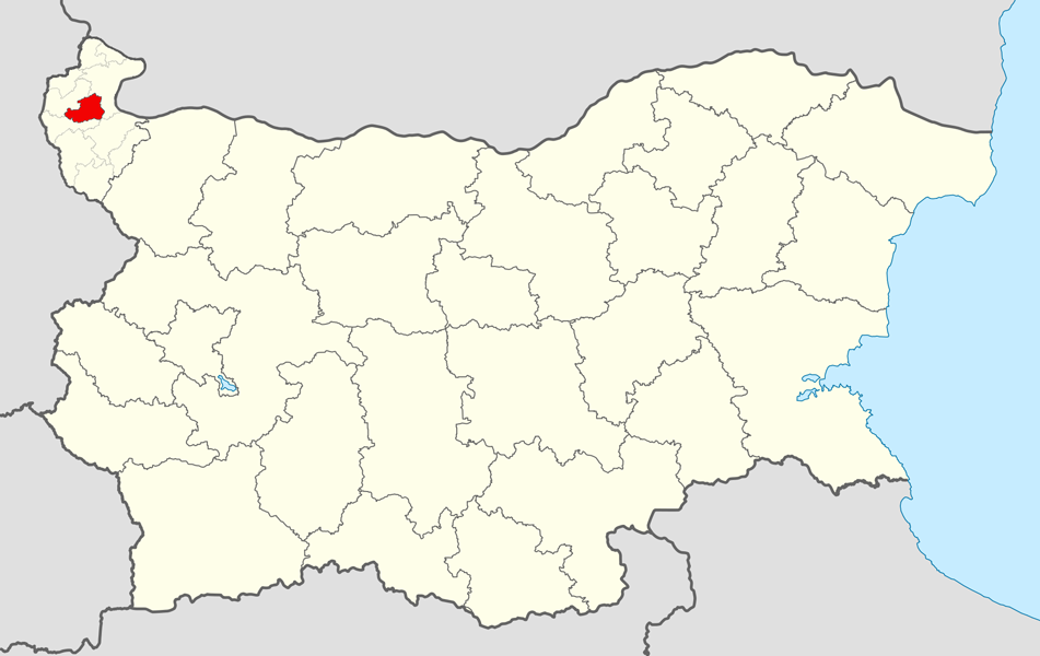 Location map of Gramada Municipality within Bulgaria and Vidin Province. Equirectangular projection, N/S stretching 130 %. Geographic limits of the map: N: 44.4° N S: 41.1° N W: 22.1° E E: 28.9° E